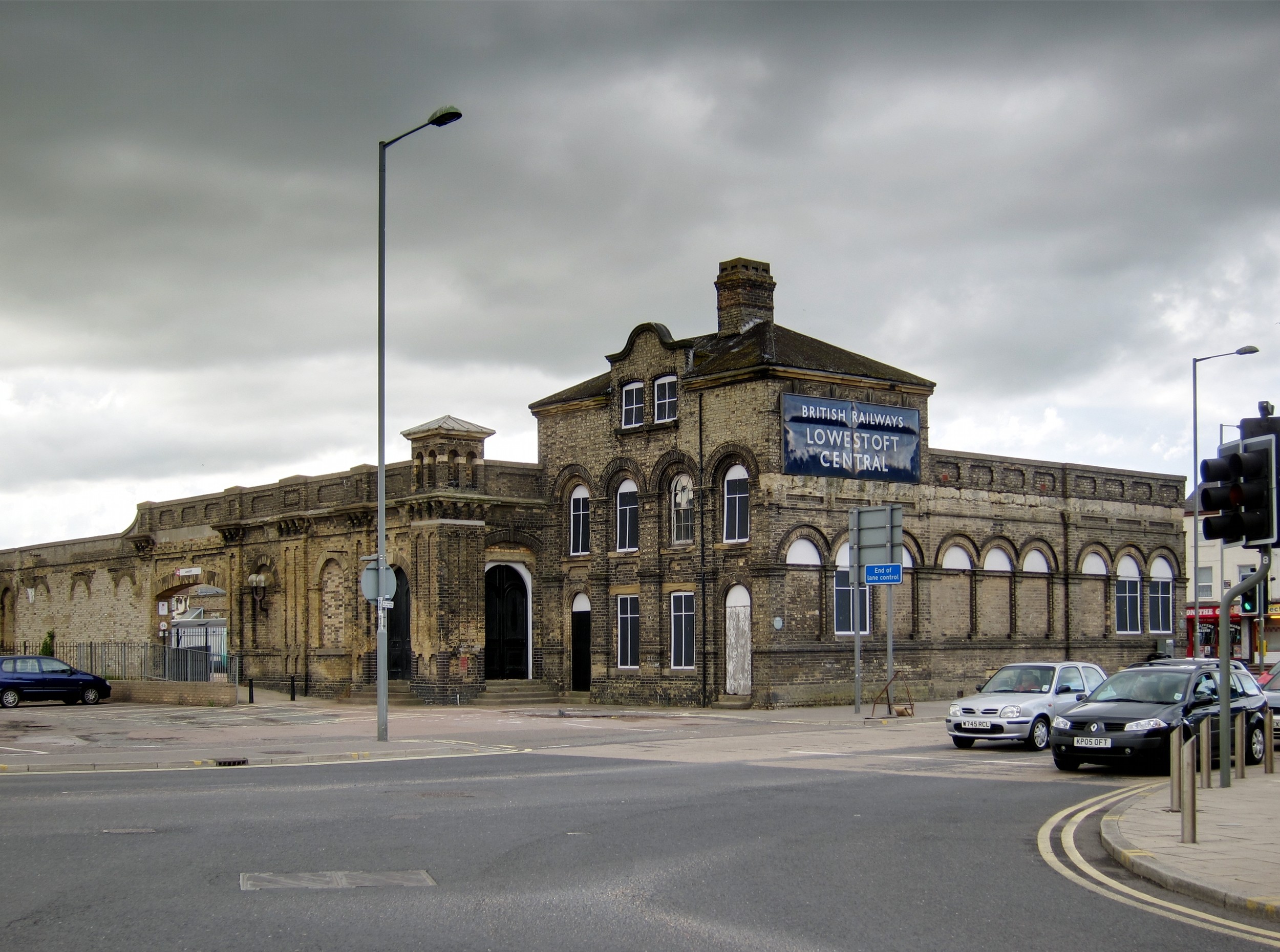 Exterior of Lowestoft railway station